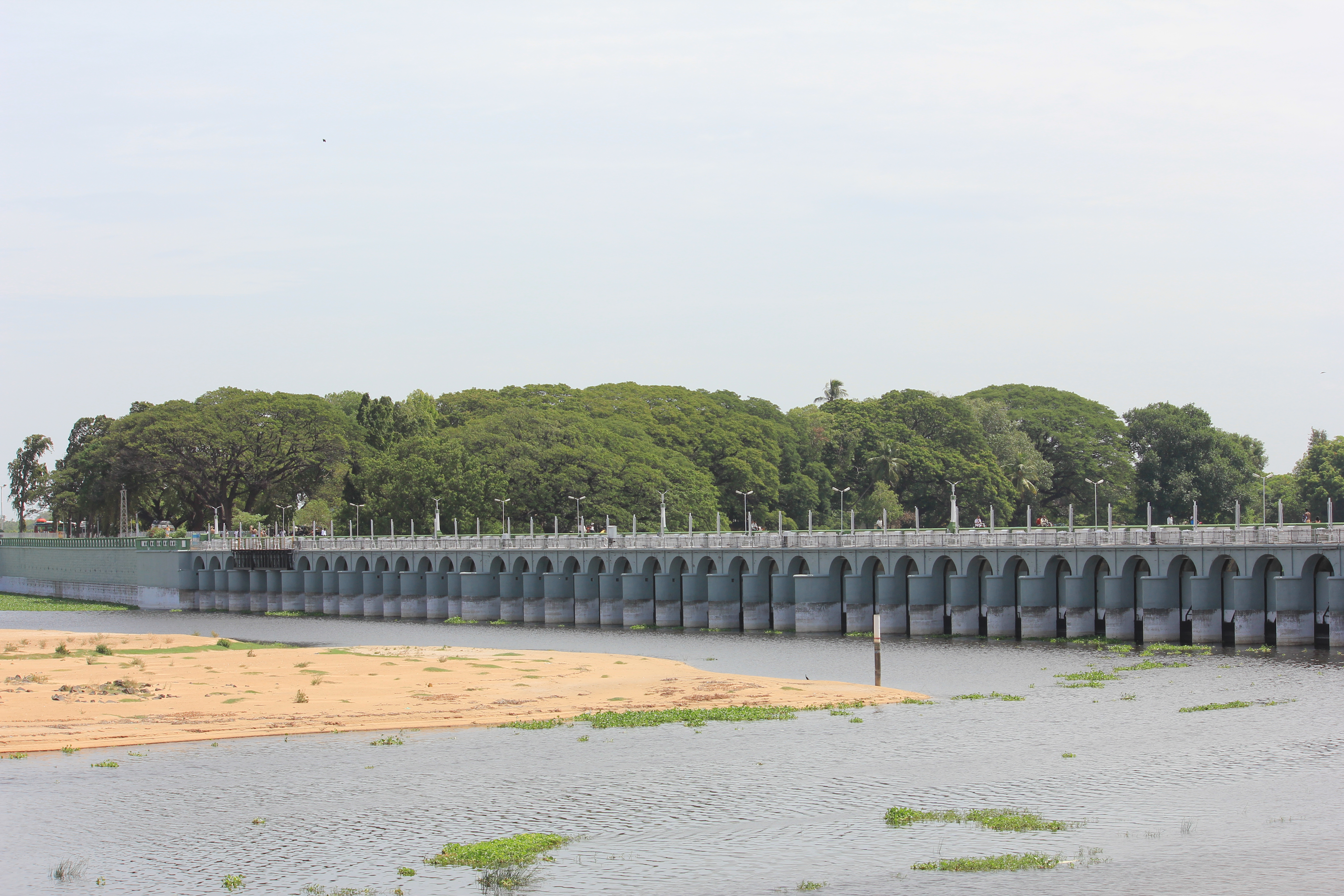 Locally called Kallanai, the Grand Anicut dam was built on the Cauvery River in the c. 100 BC – c. 100 AD[1][2][3] by Chola king, Karikalan. This massive structure was later reinforced by the British. Grand Anicut is believed to be one of the oldest water-diversion structures in the world that continues to be functional